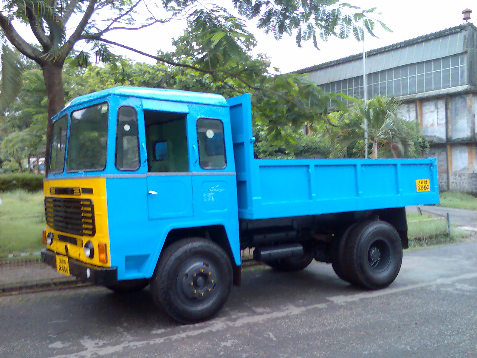 Ashok Leyland Comet tipper truck 1992 model